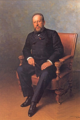 Portrait of Lazar Brodsky (1848-1904)